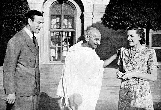 Gandhi with Lord and Lady Mountbatten